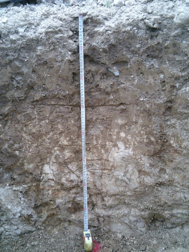 Leptic Cambisol in Atsbi Ethiopia profile